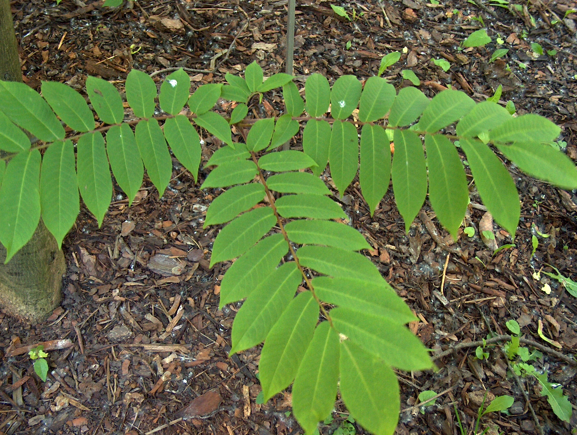 Japanese Wingnut (Pterocarya rhoifolia) in The University of Helsinki Botanical Garden in Kaisaniemi